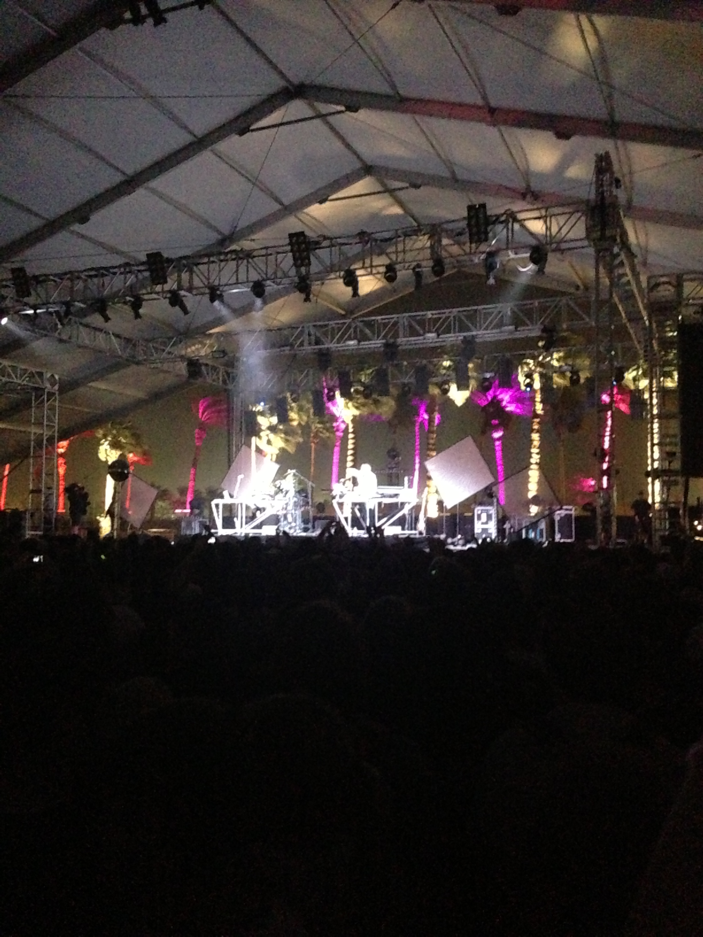 Disclosure at Coachella 2013